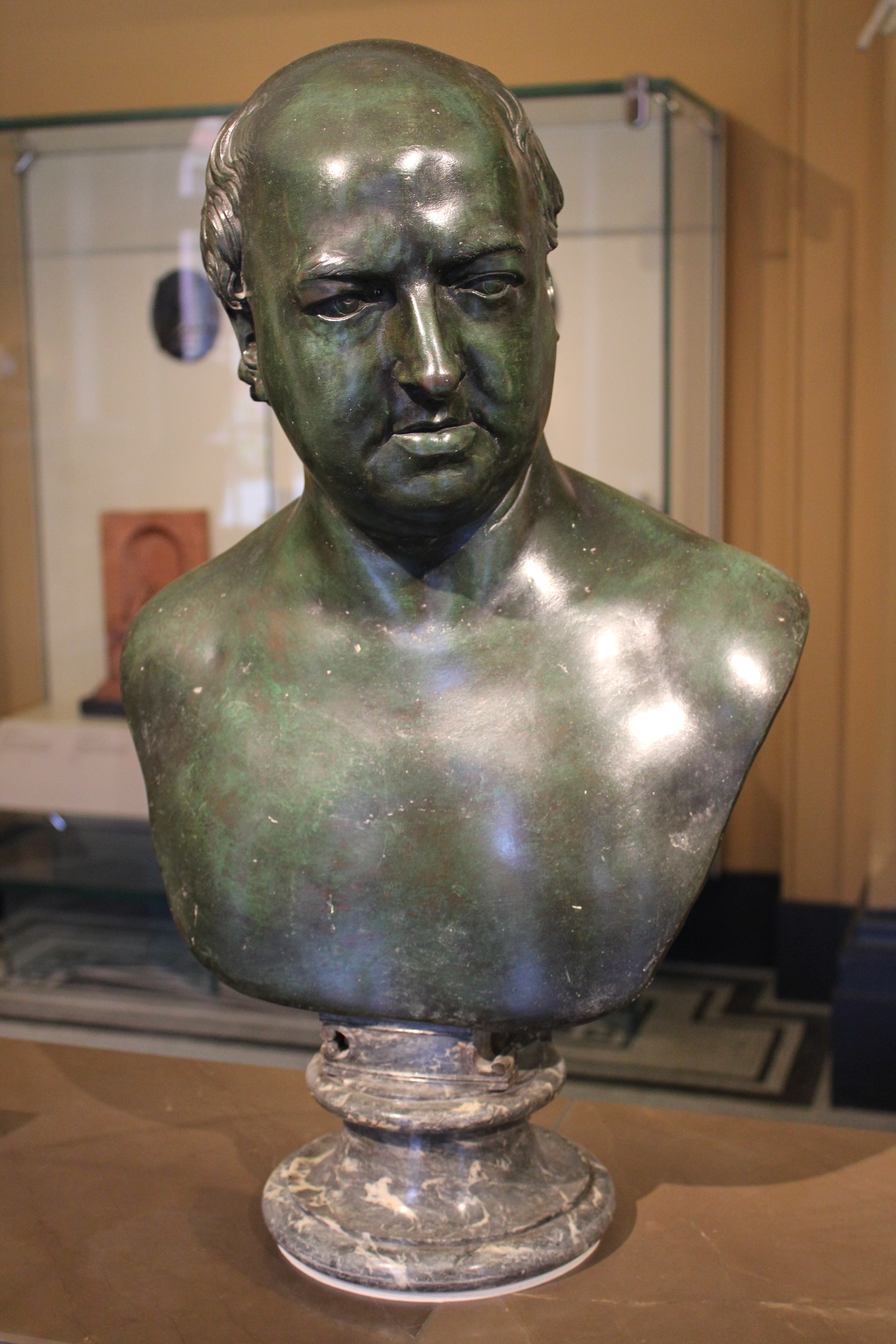 Bust signed and dated 1778. Museum label says: "Sir Thomas Gascoigne (1745-1810) was a cultivated Yorkshire landowner who supported the cause of American Independence. He is shown bare-chested in the classical manner. Hewetson was an Irish sculptor working in Rome and he made this bust along with a duplicate for friends of Sir Thomas near Leeds. Rome; cast by Luigi Valadier, Bronze. "